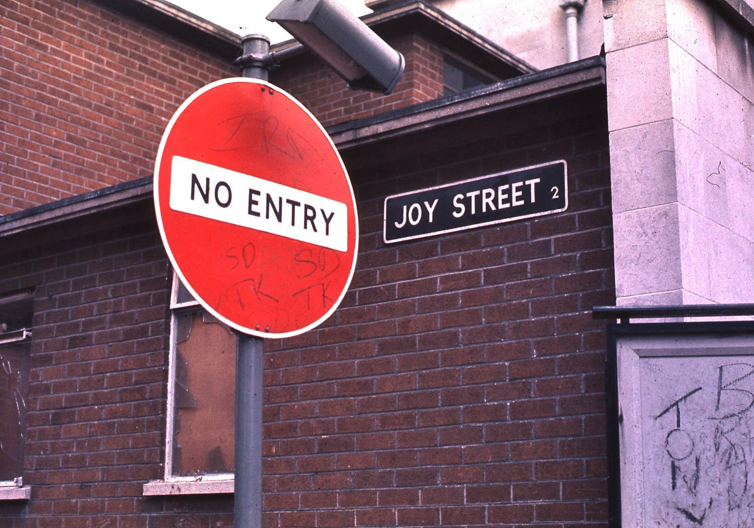 Street sign with "IRA" graffiti reading "NO ENTRY." Another sign labels the street as "JOY STREET." Other information Photo by George Garrigues